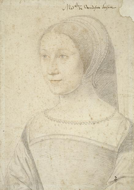 Marie de Bourbon (1515–1538), eldest sister of Antoine de Bourbon and fiancée of James V of Scotland.